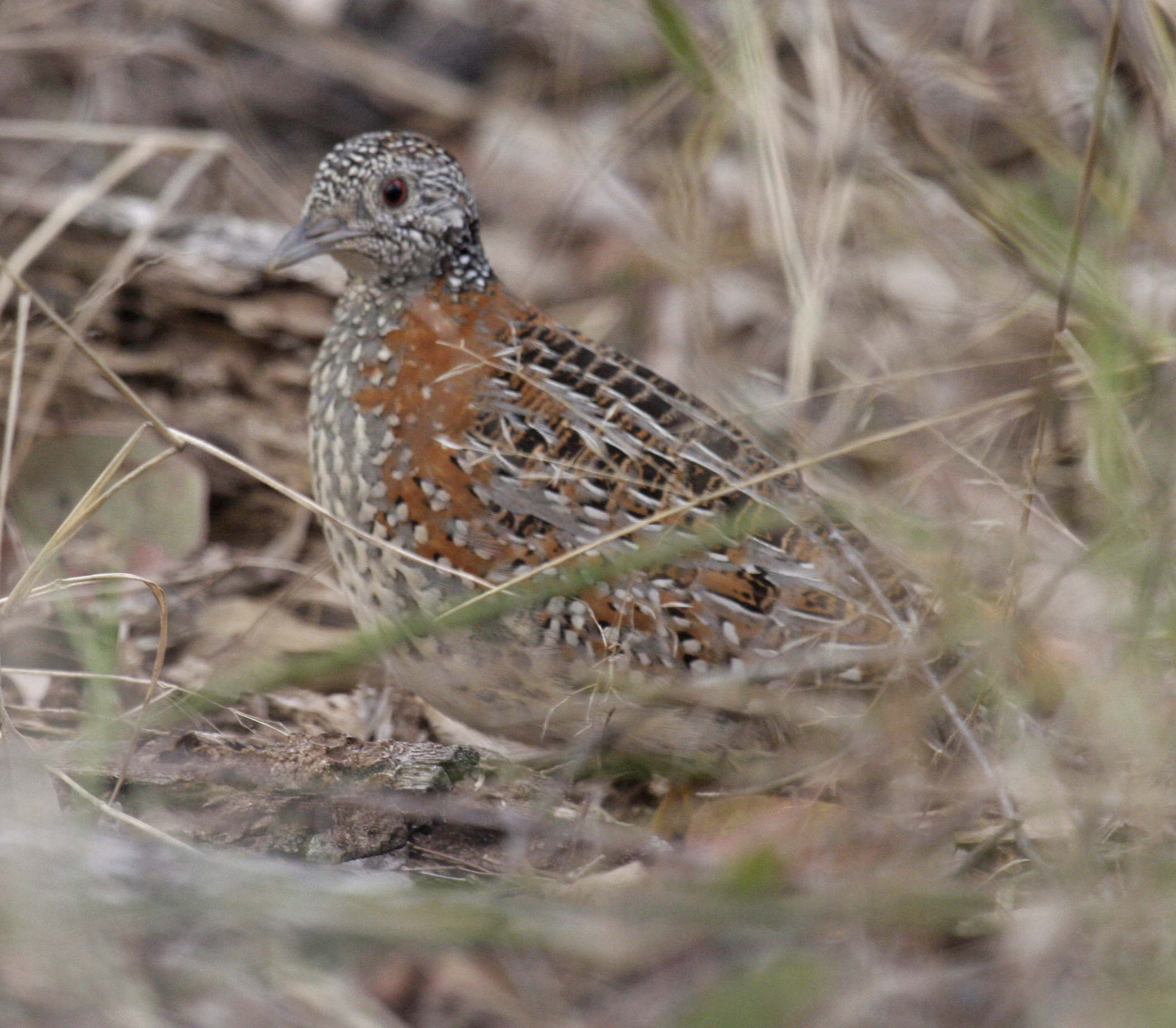 Painted Buttonquail (Turnix varia) Female, Kobble Creek, SE Queensland, Australia